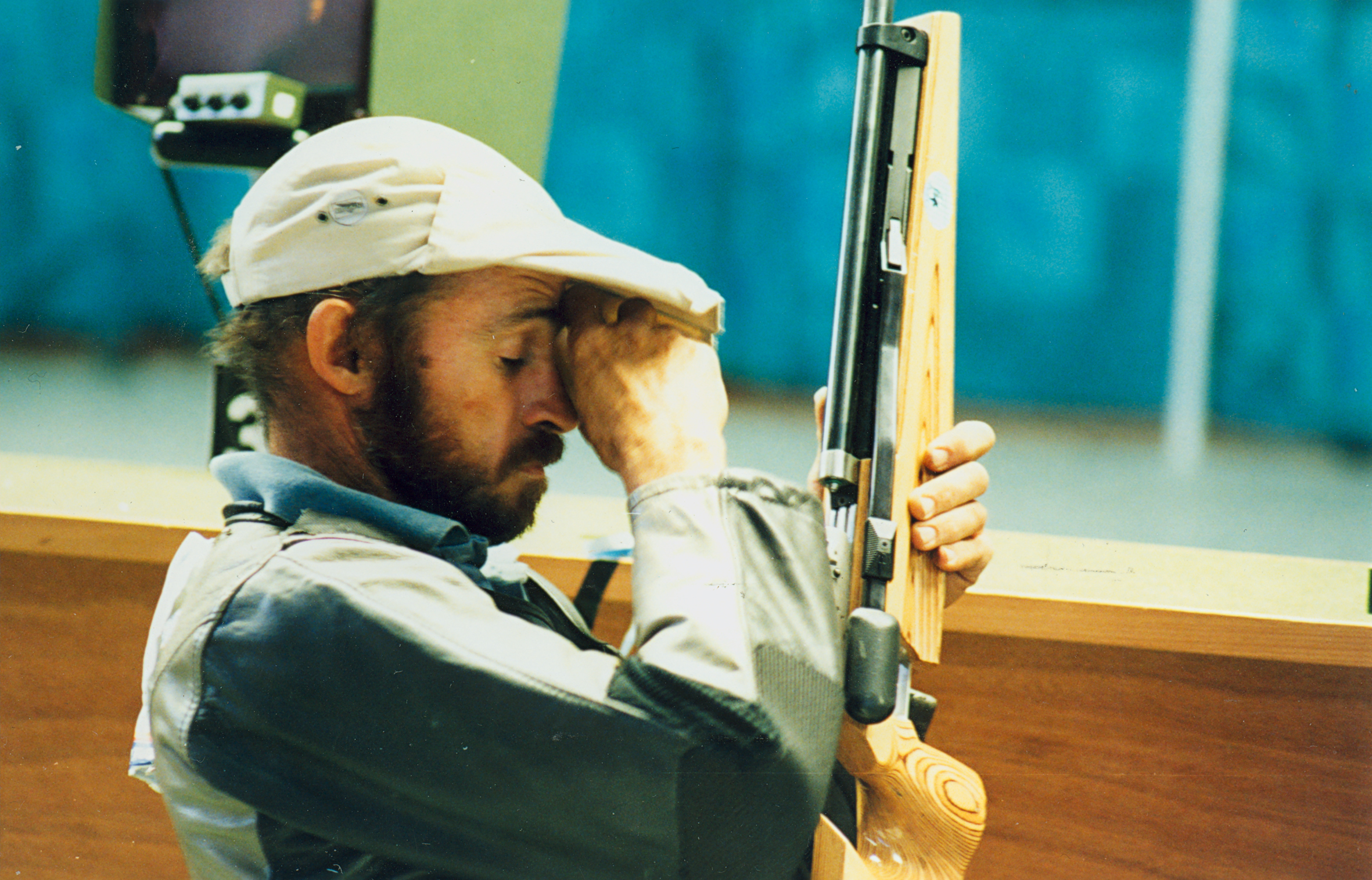 Australian paralympic shooter, Ashley Adams, at the shooting event during the Atlanta 1996 Paralympic Games.